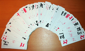 The real Zi Pai CardsFor the photography